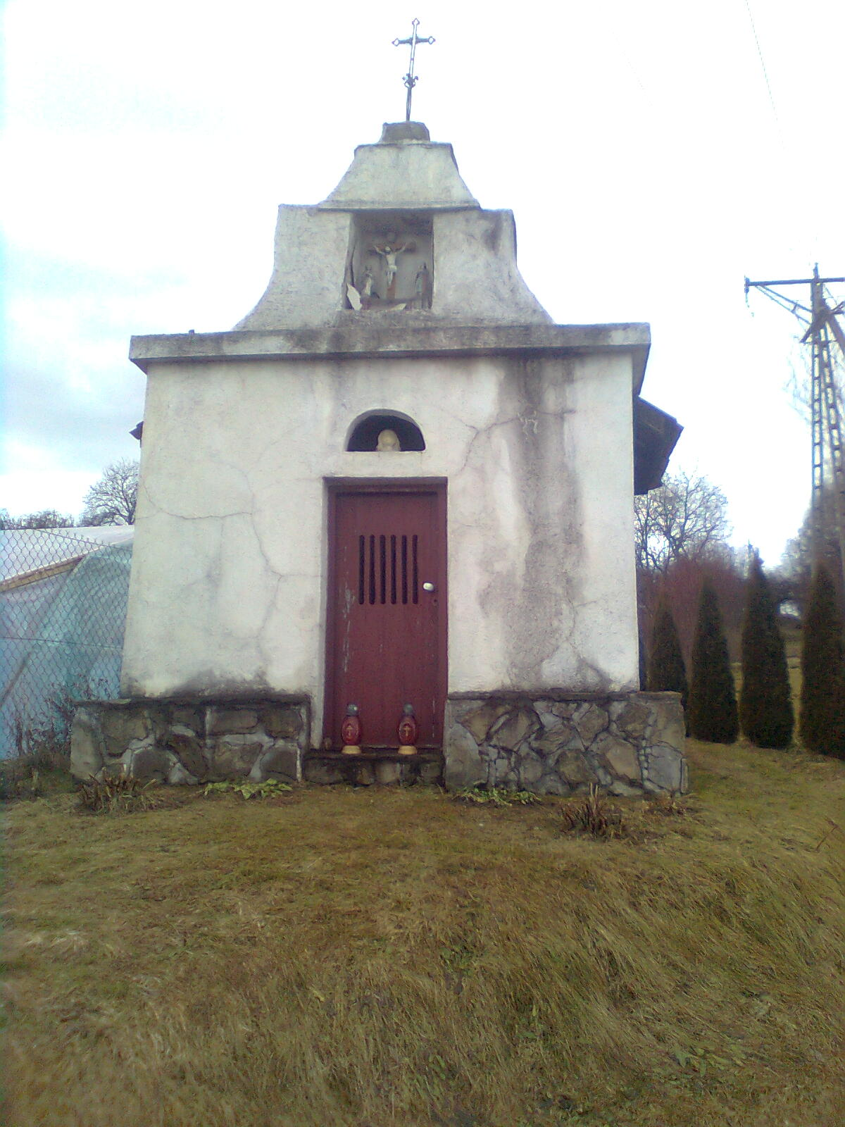 Chapel of Saint Sophia in Podegrodzie (Lesser Poland Voivodeship)